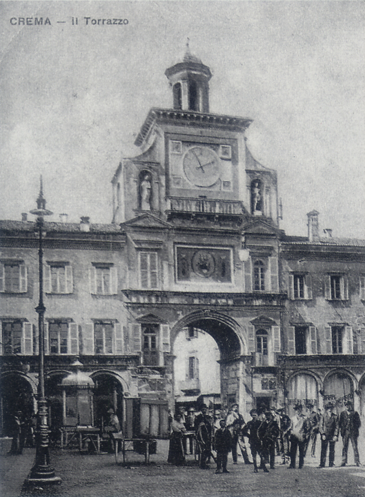 The city gate called Torrazzo in Crema (Italy) in a postcard of 1912